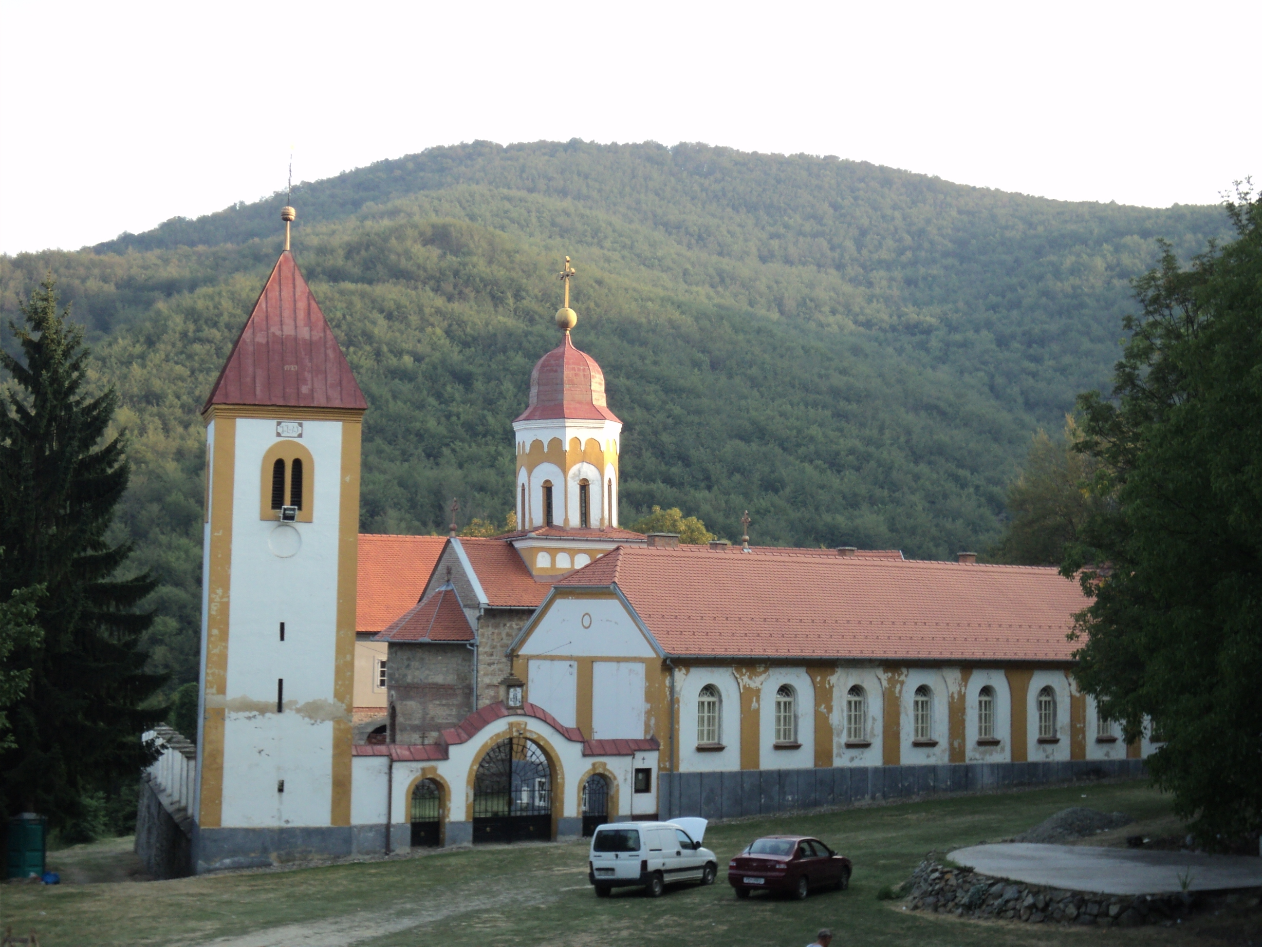 Orahovica monastery, also known as Saint Nicholas monastery, near the village of Duzluk (Orahovica county).